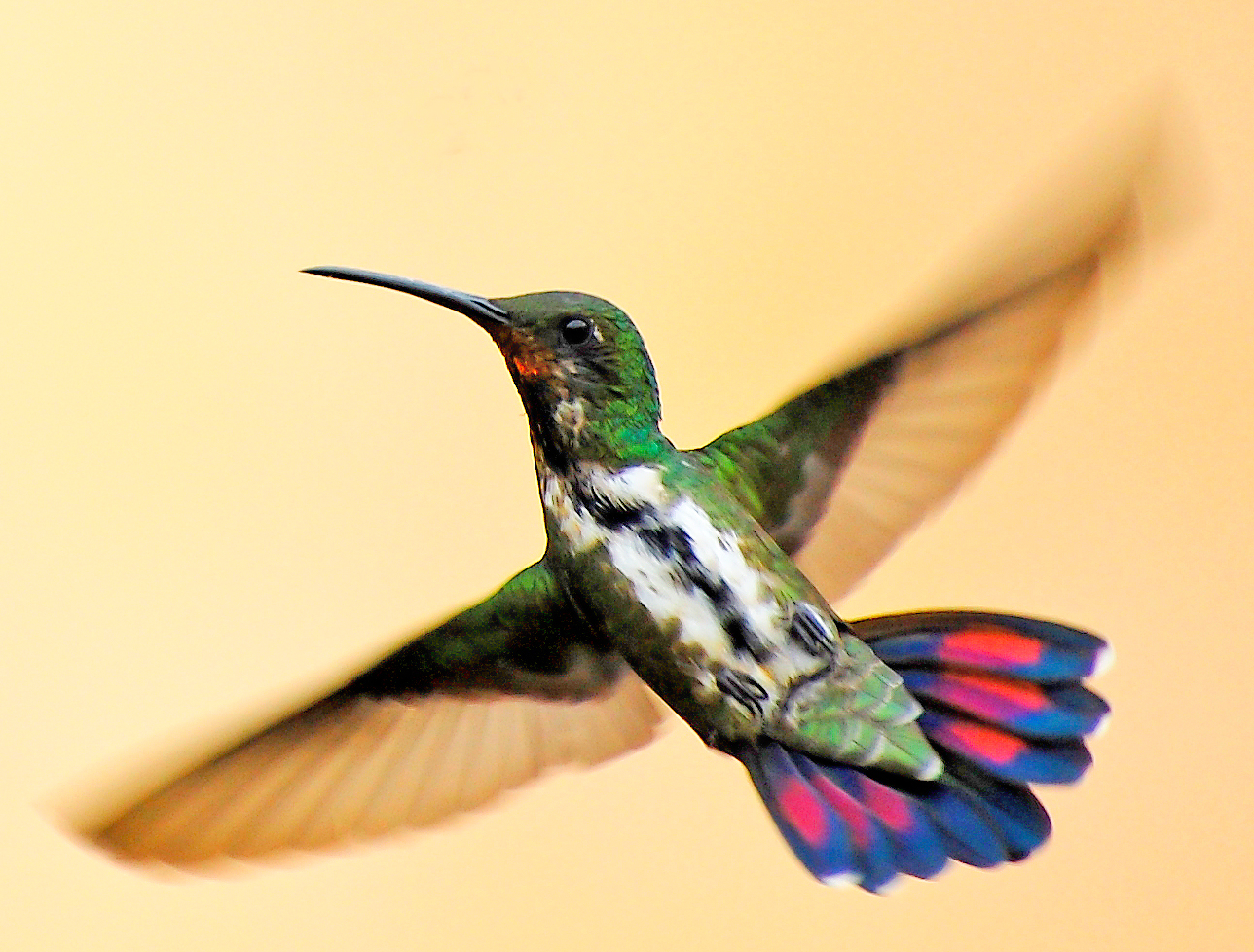 A Black-throated Mango in Piraju, São Paulo, Brazil.